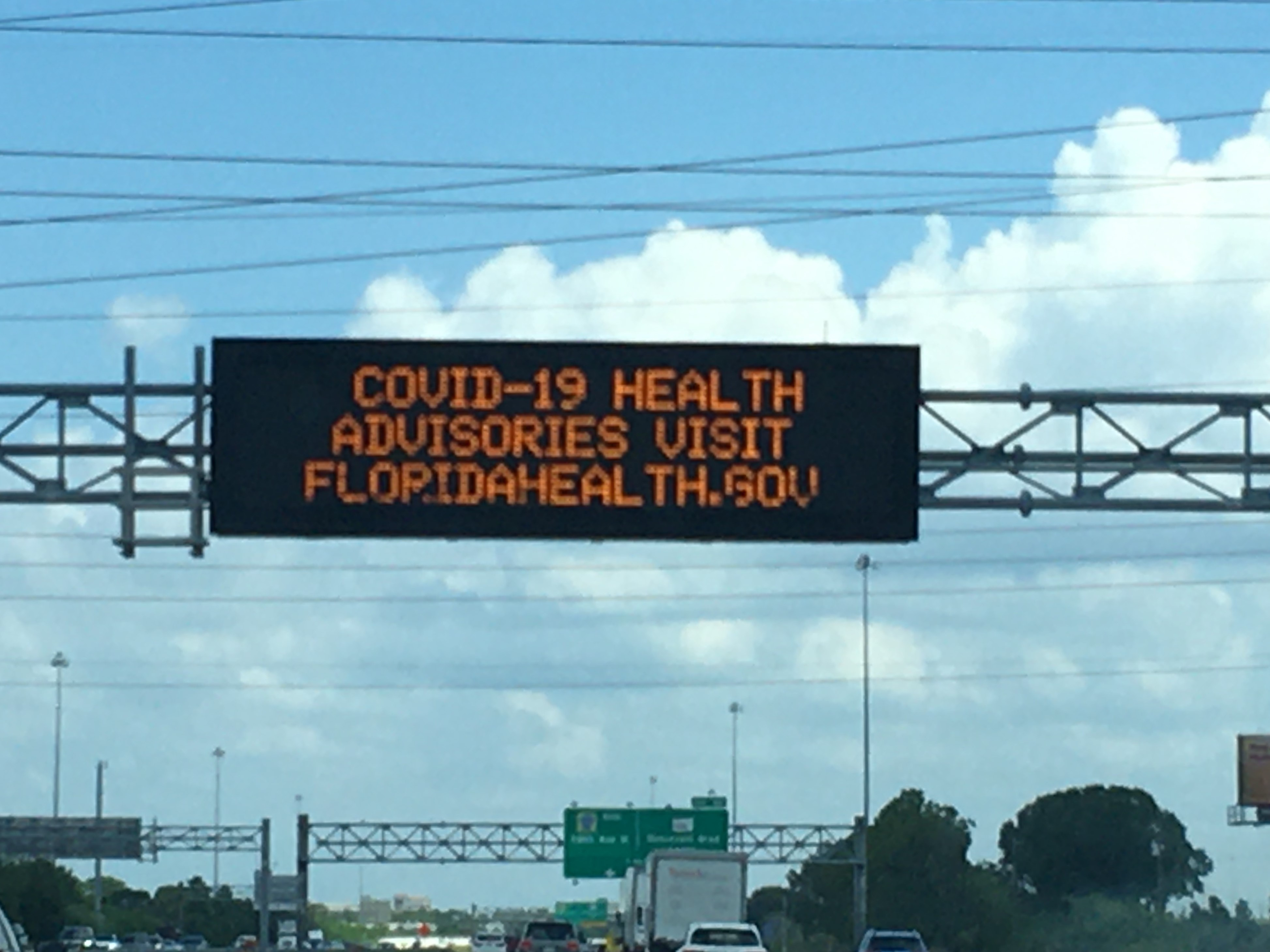 COVID-19 health advisories sign on Florida Highway